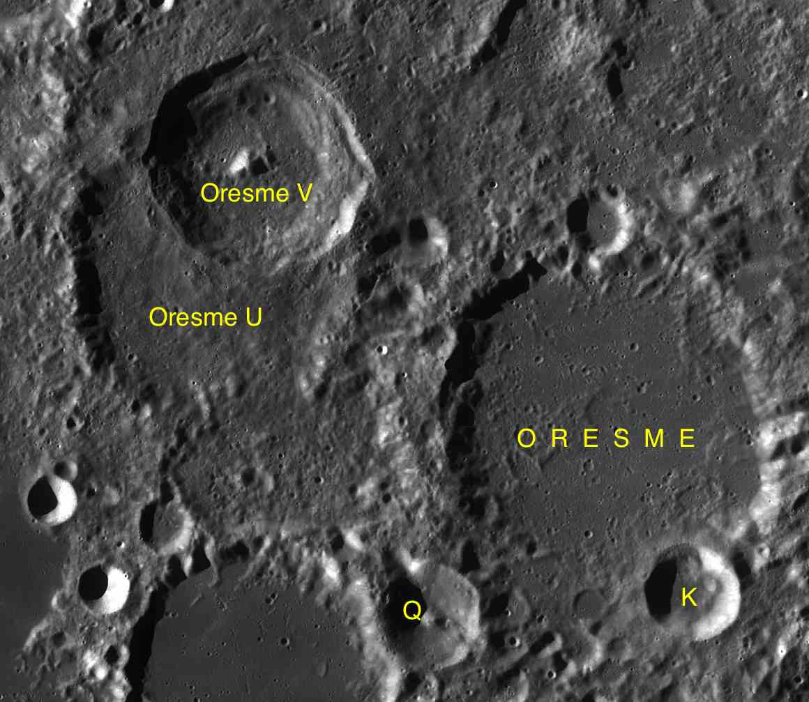 Part of the chart LAC-119 used for the presentation